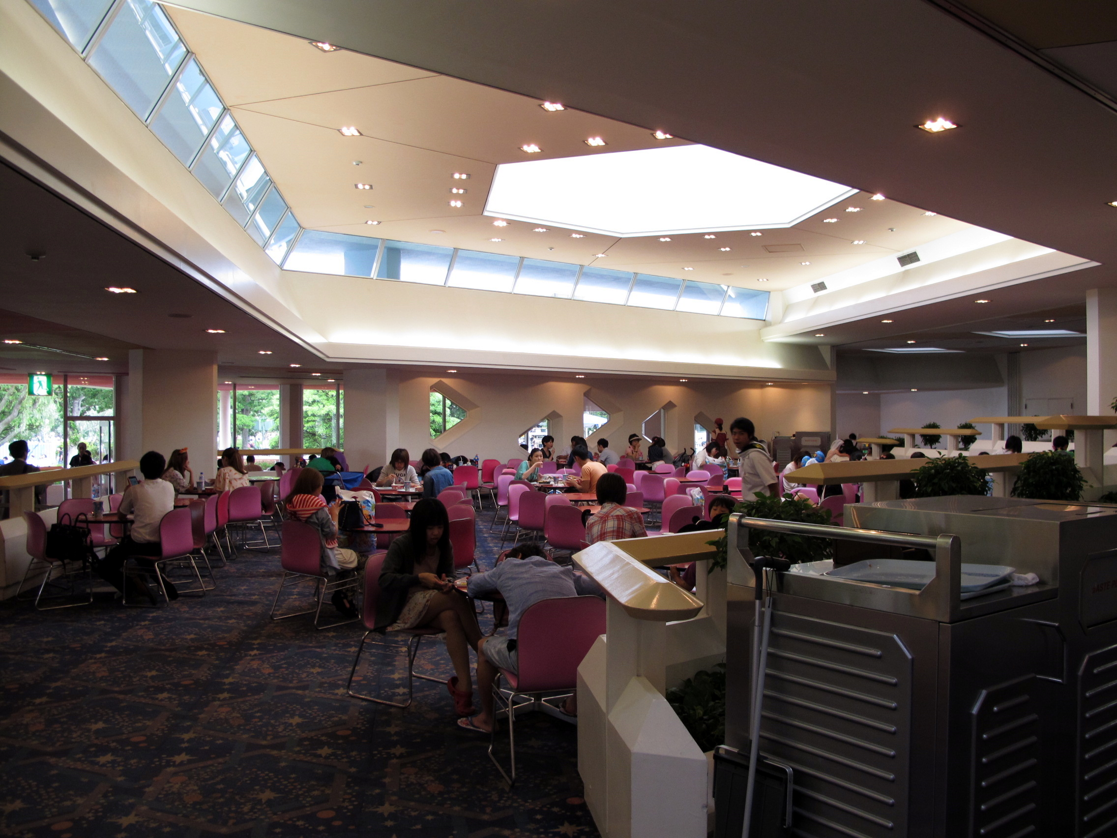 Plaza Restaurant, Tokyo Disneyland Tomorrowland